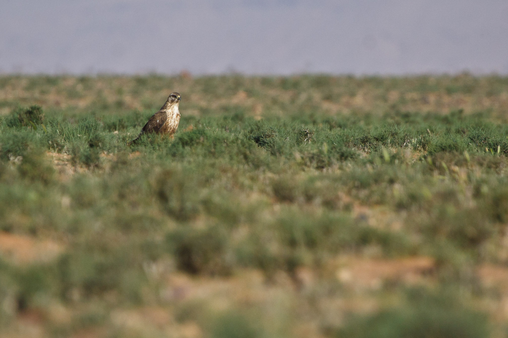 Stony desert of the Tagdilt Track